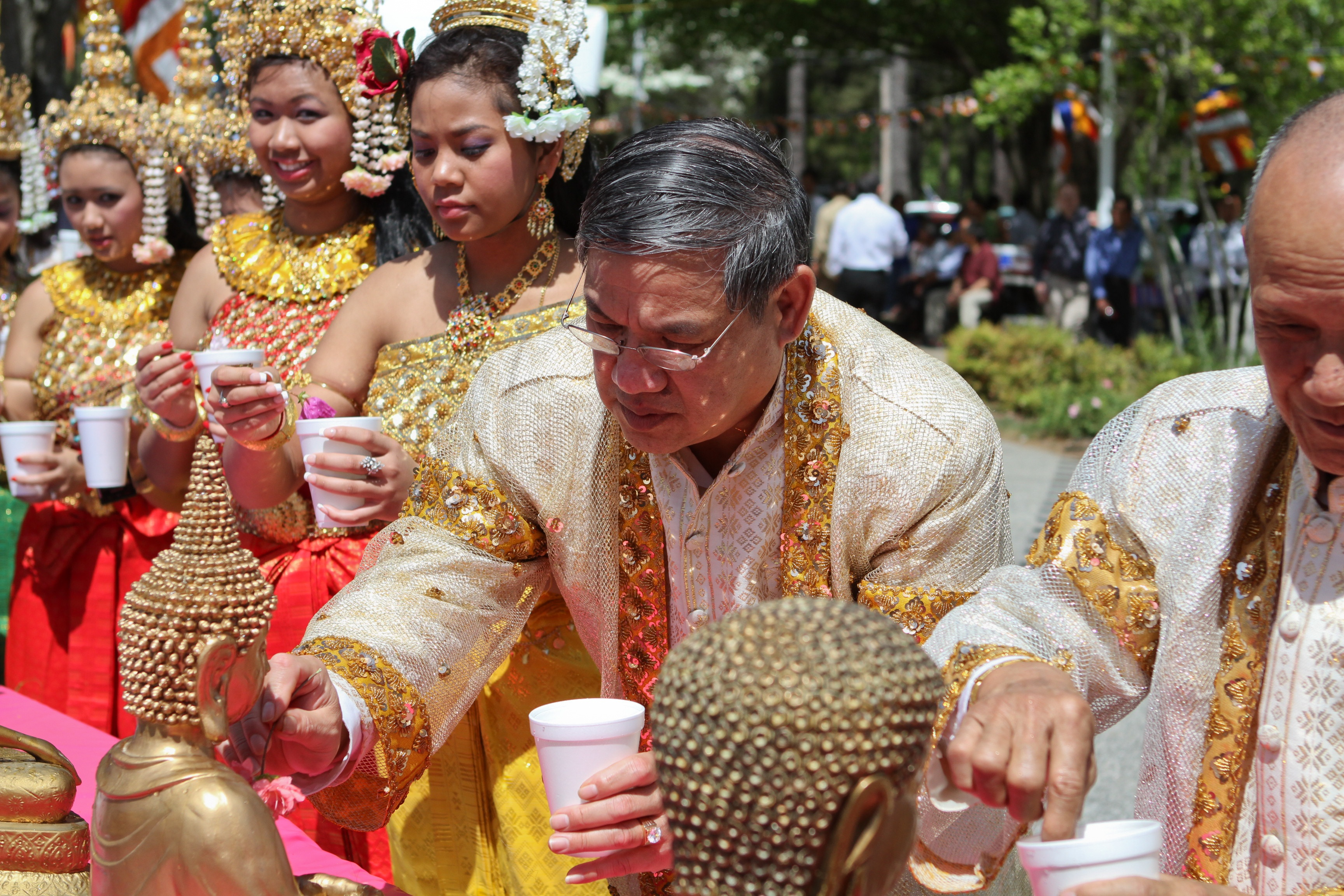 Elder members of the Cambodian community in Lithonia, GA, perform a ritual for the Khmer New Year.